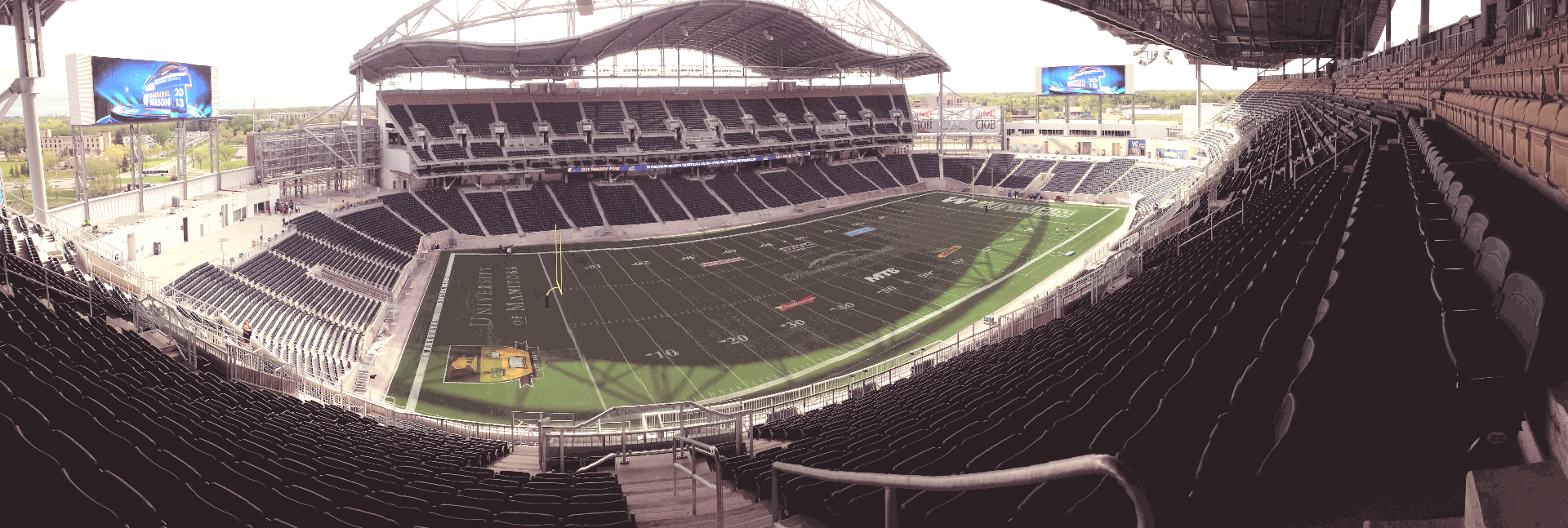 Investors Group Field Winnipeg Manitoba